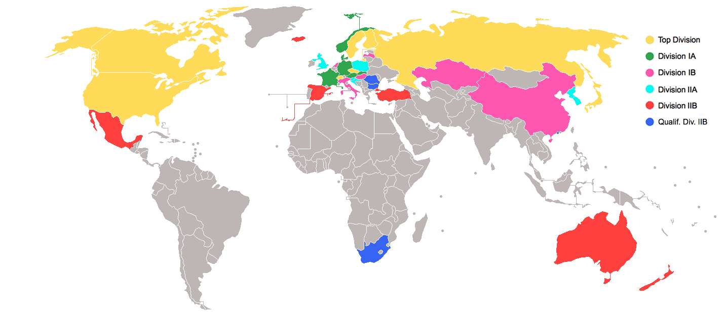 Nations participating at 2016 IIHF World Women's Championships